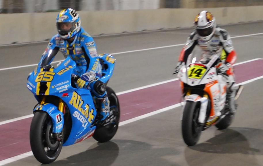 Puniet from HondaLCR has made surprised the audience during the qualifying round... Capirex needs adaptation with his Suzuki